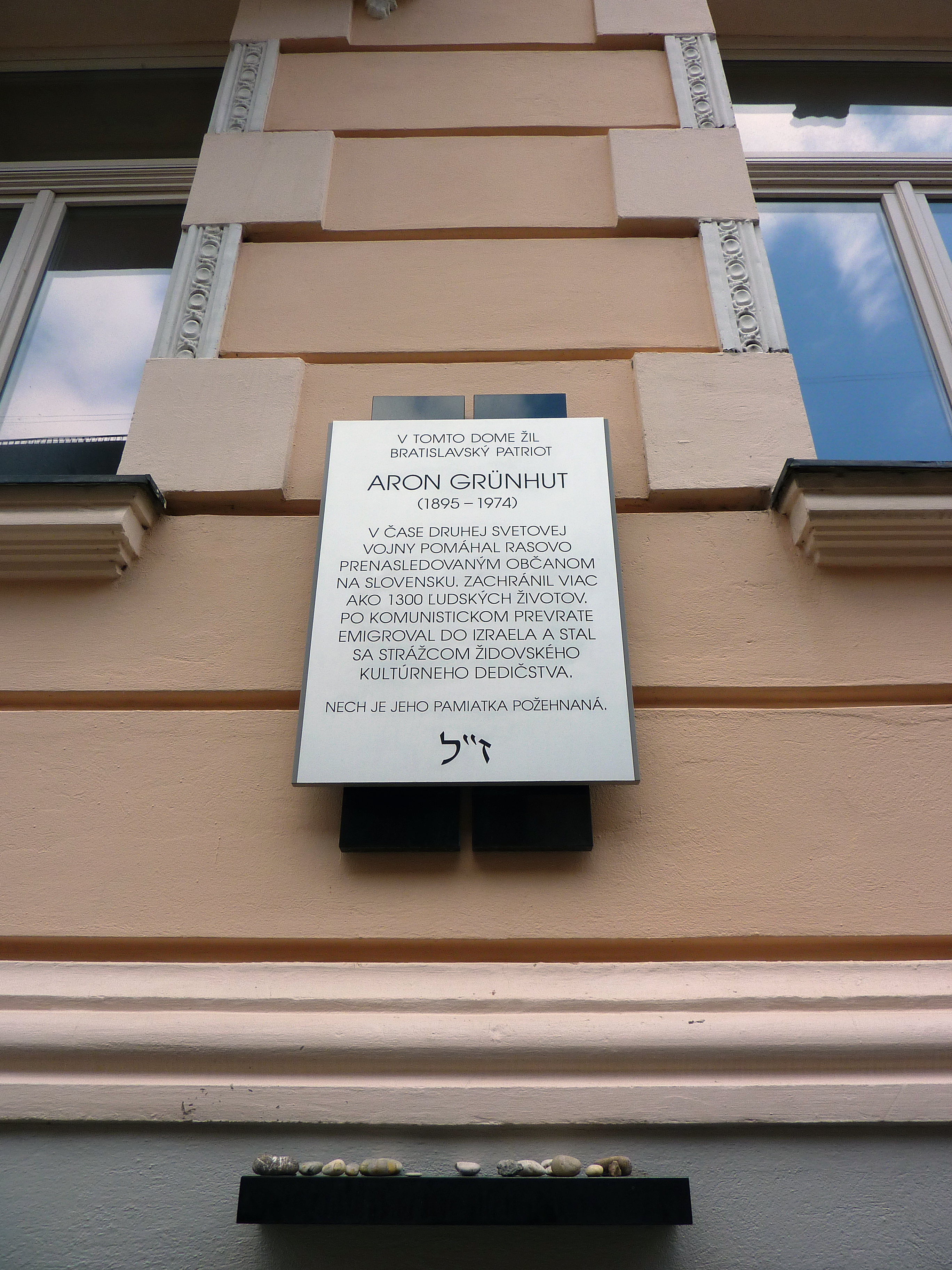 Memorial plaque to Aron Grünhut. Heydukova street, Bratislava/Slovakia.